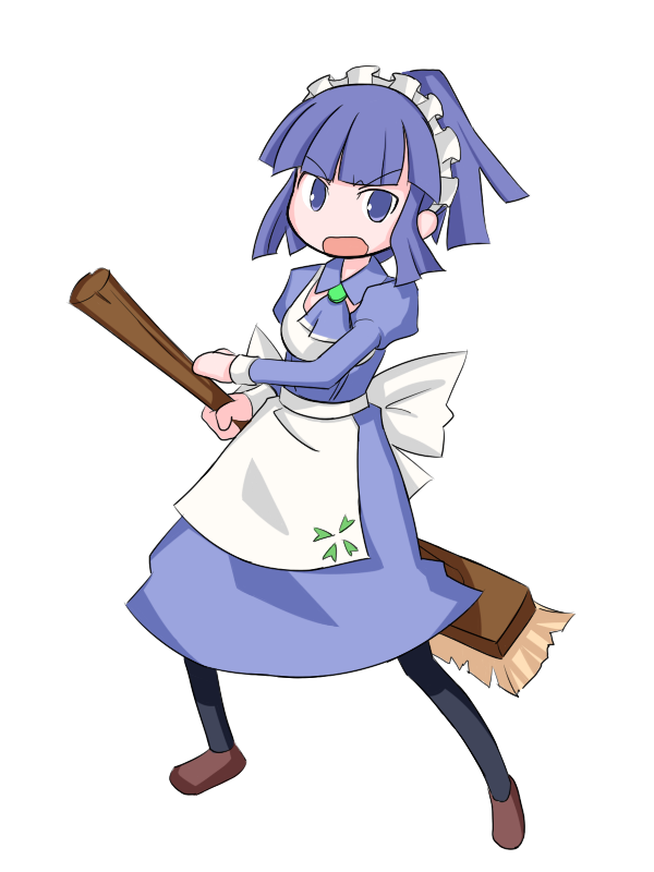 Artwork and artist's interpretation of "Meido", the personification of the janitor (someone who deletes rule-breaking and off-topic posts) on the /jp/ (Otaku Culture) board of 4chan.